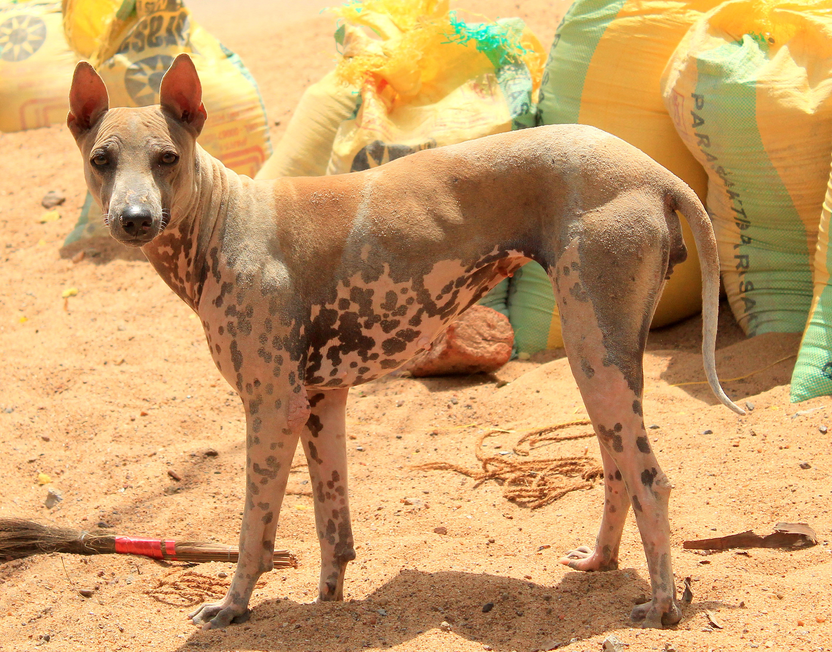 Jonangi